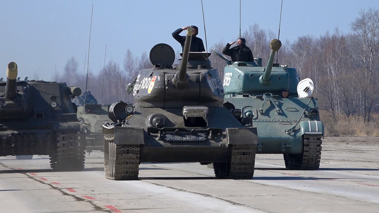 M4A2 Sherman in Khabarovsk 2019